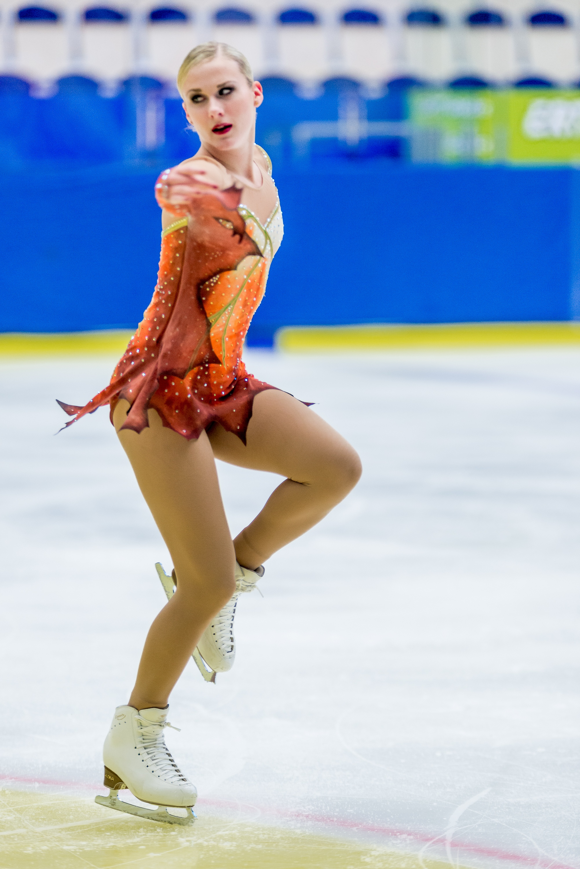 Swedish figure skater Isabelle Olsson performing her short program at the 2013 Swedish figure skating champrionships at VIDA Arena in Växjö